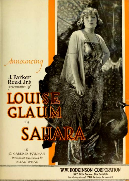 Ad for the American film Sahara (1919) with Louise Glaum, in color insert after page 1106 of the May 24, 2014 Moving Picture World.